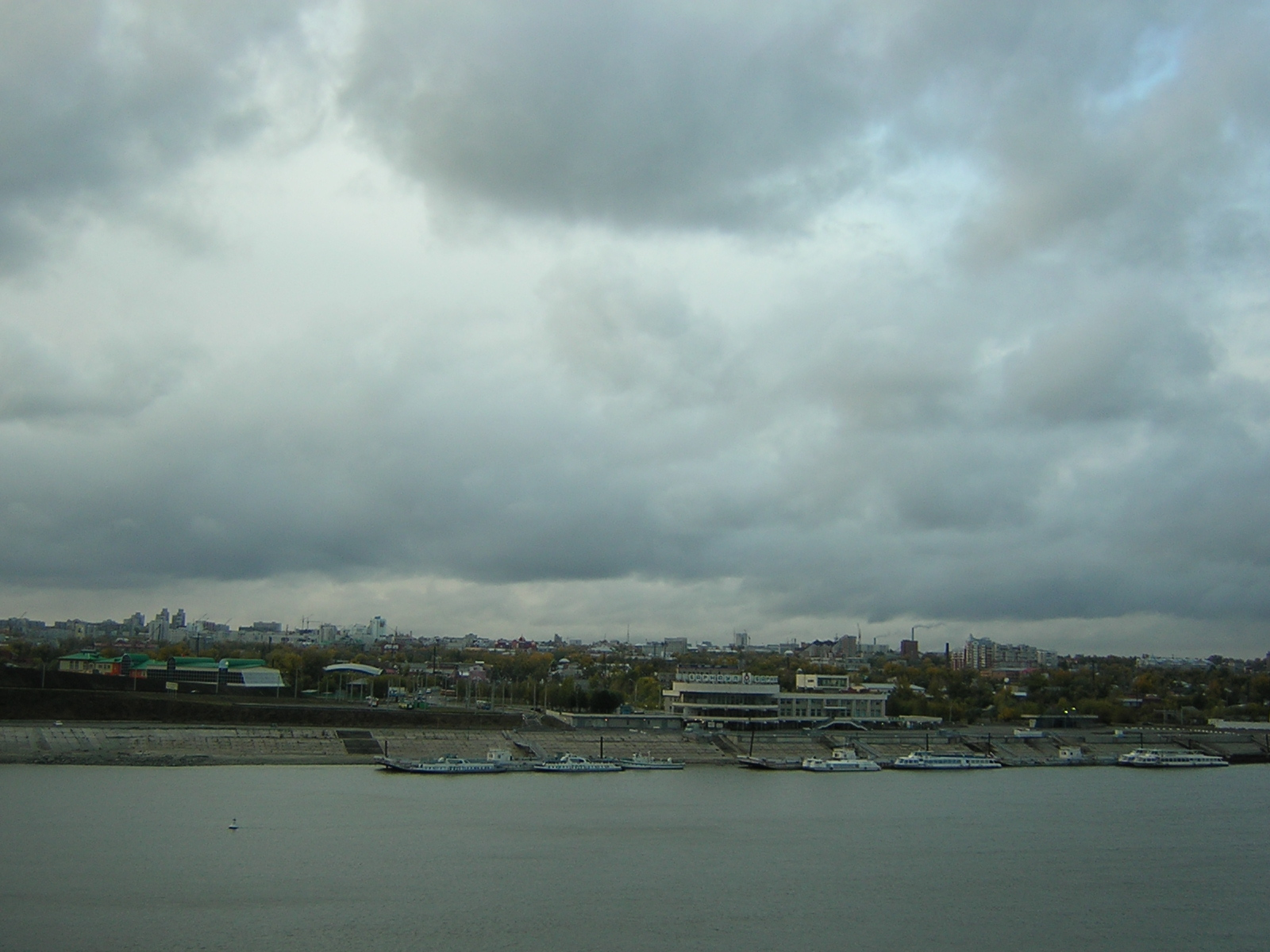 Clouds over Barnaul city (Russia).